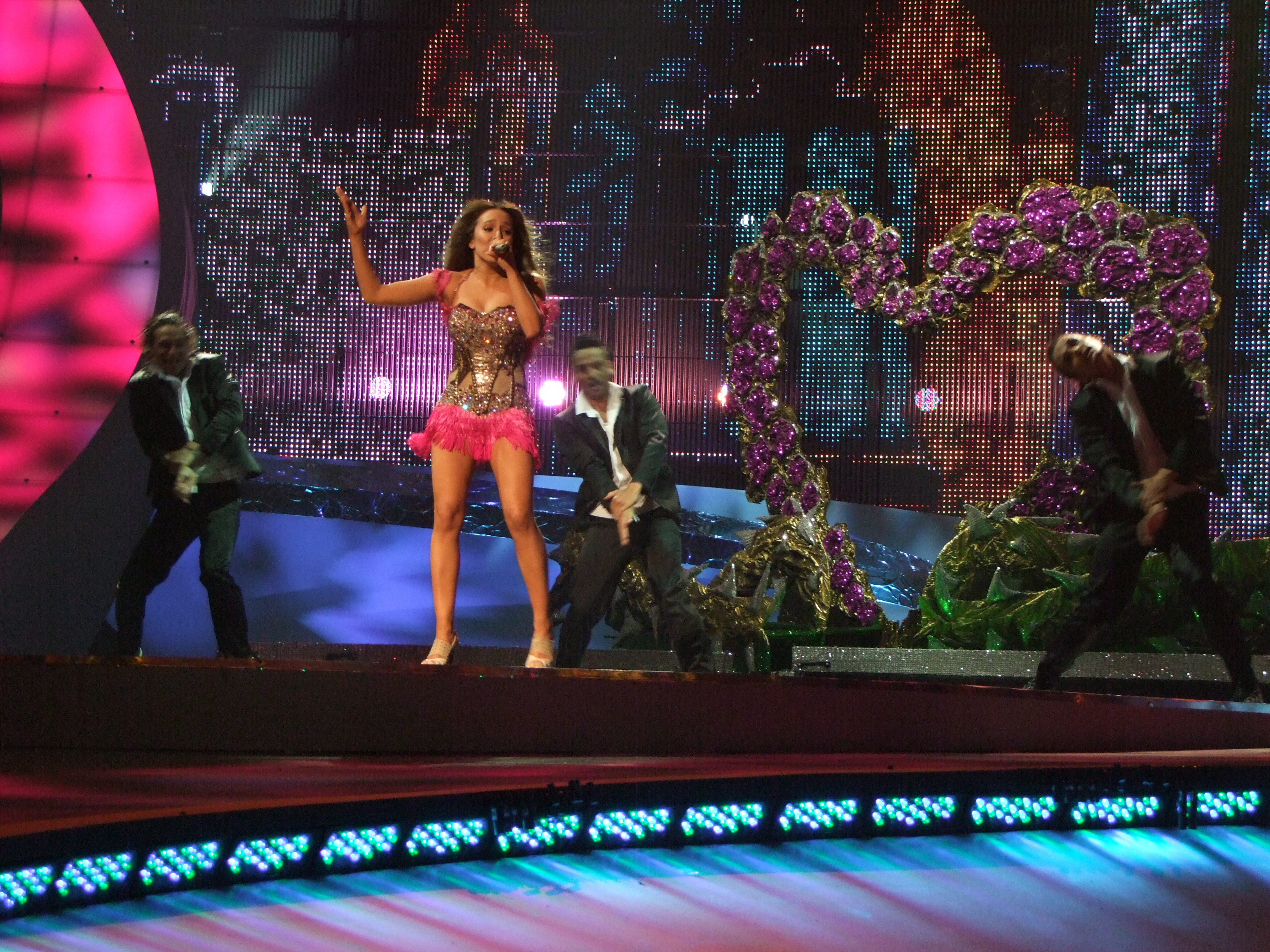 Eurovision Song Contest 2008, 1st semifinal Greece: Kalomoira - Secret combination